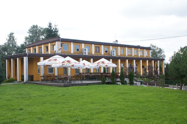 Osrodek Kulturalno – Rekreacyjny „Gubalowka” w Skawinie